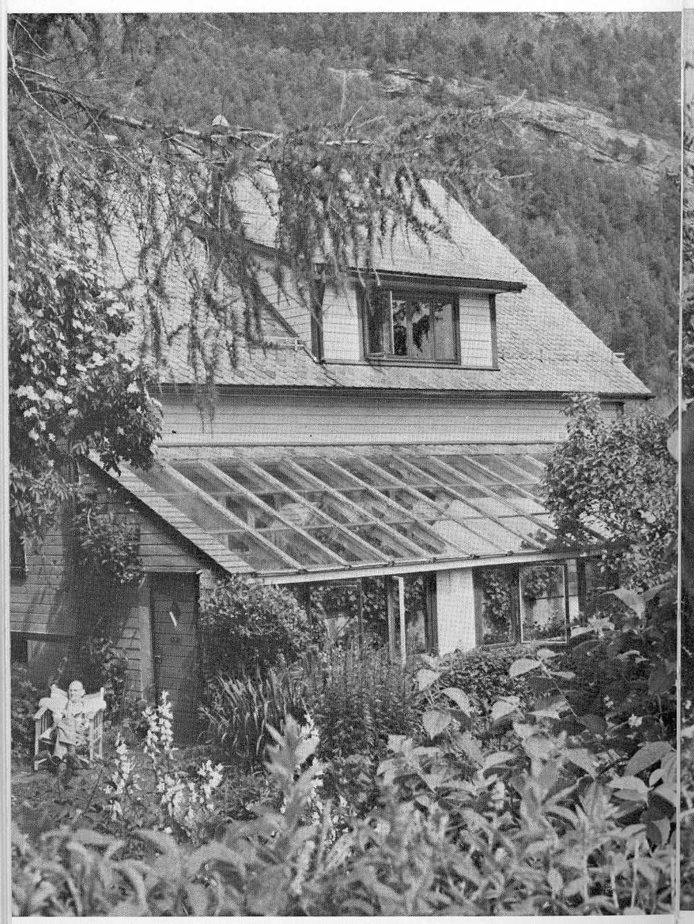 The Lea residence. (Erik Grant Lea) The old farmhouse is incoporated in the building and can be seen inside. Gjølanger, Dale parish, Sogn og Fjordane county, Norway. Photographer unknown. about 1970.